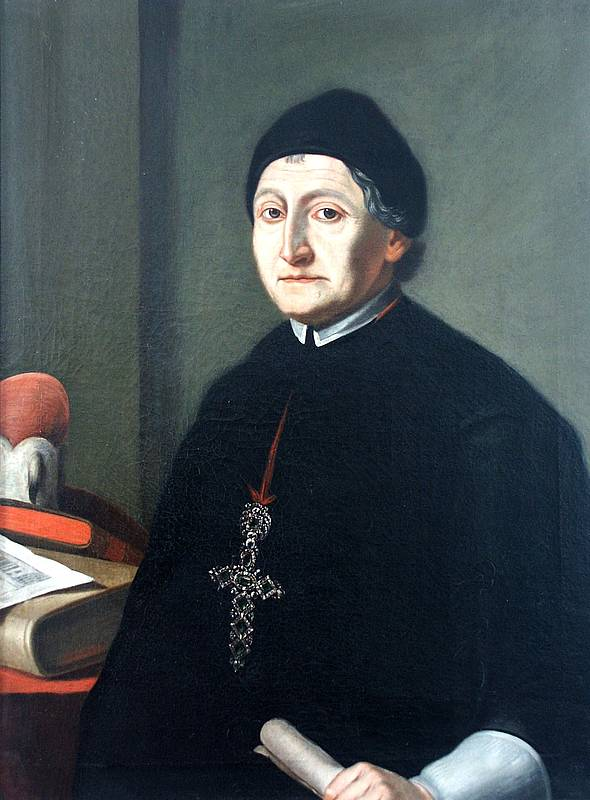 Martin II Gerbert, prince-abbott of St. Blaise Abbey in the Black Forest. With the sapphire pectoral cross of 1777